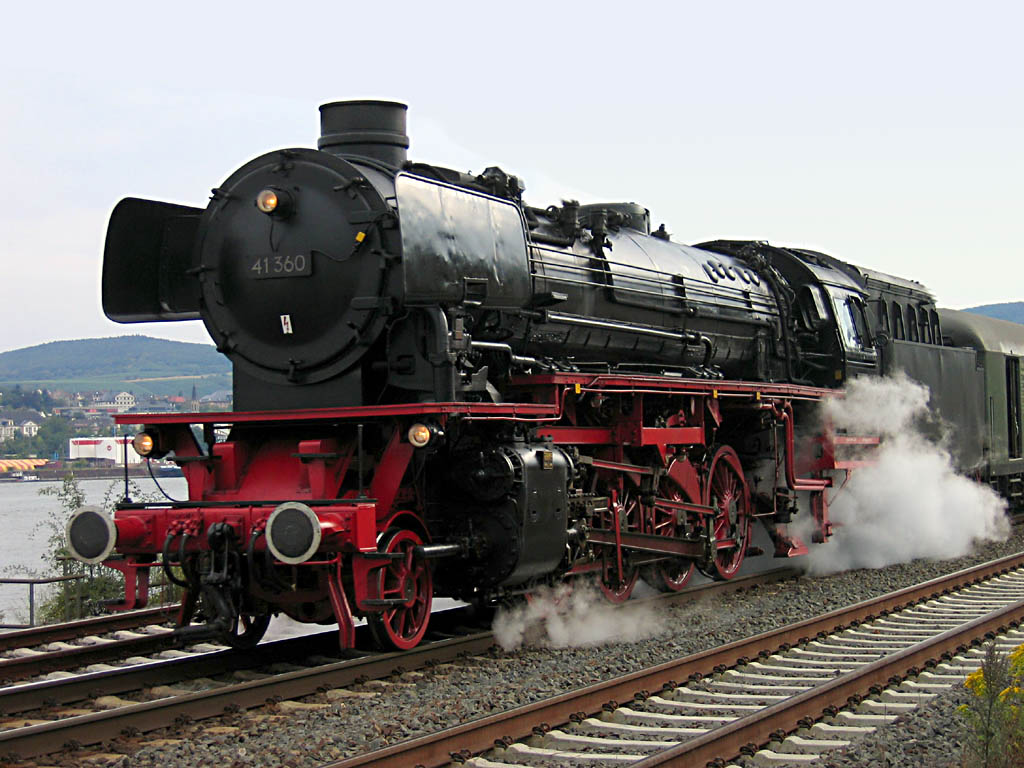 steam engine 41360 at Rüdesheim (2004)